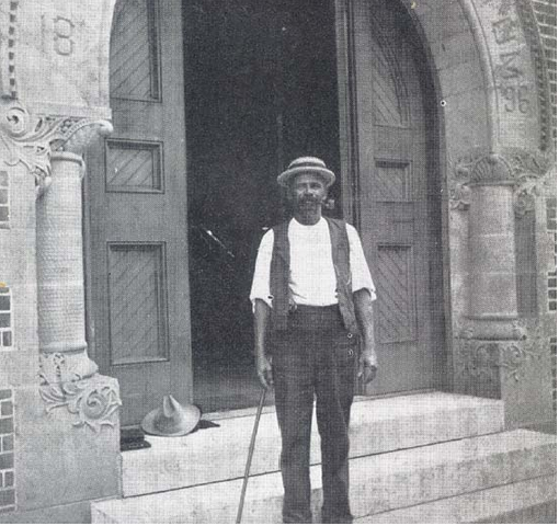 Taken from Peter Bruner. "A Slave's Adventures Toward Freedom; Not Fiction, but the True Story of a Struggle". Documenting the American South. University Library, The University of North Carolina at Chapel Hill. Published in 1919.